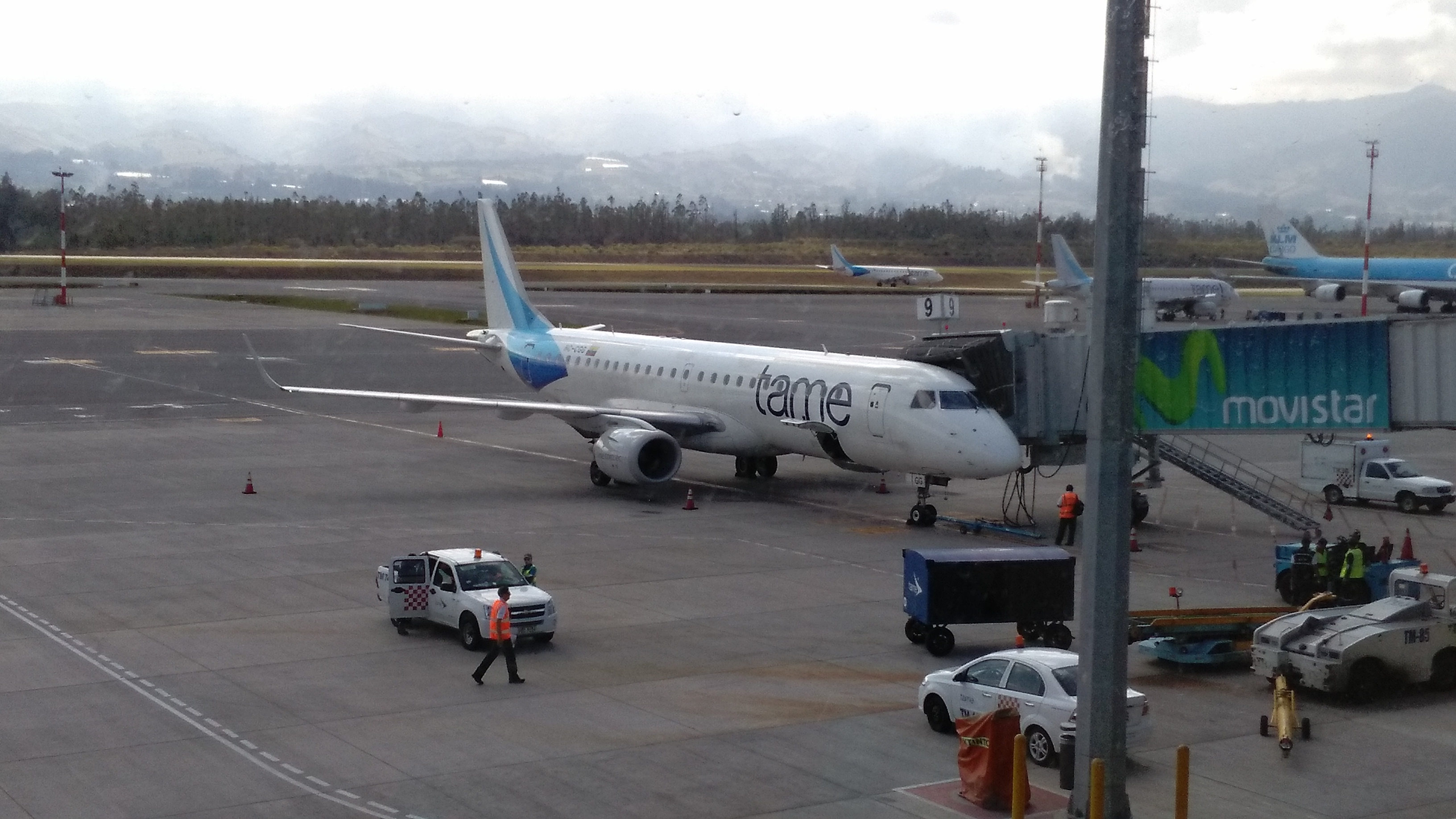 Embraer 190 TAME seen from the boarding gate